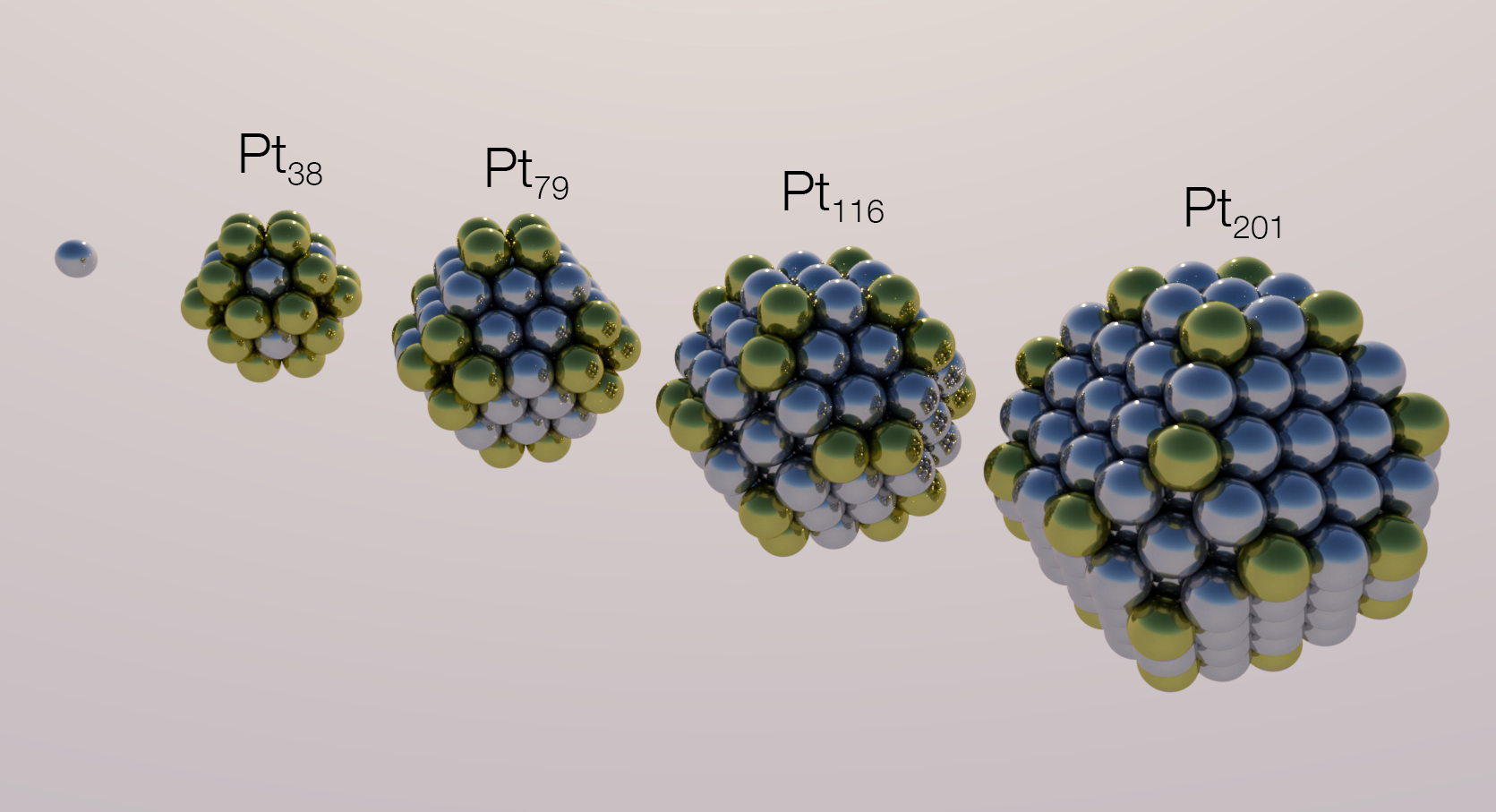 Platinum nanoparticles of different sizes; for FCC metals the equilibrium shape (at the temperature of 0K) is the truncated octahedron. Surface atoms at kink positions, between (111) and (100) planes, are highlighted (in gold colour); for all of the four nanoparticles, the number of kink sites (corresponding to the atoms having coordination number 6) is 24.